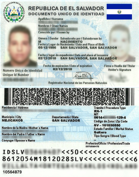 Unique Identity Document (DUI by its acronym in Spanish): is the document used in El Salvador as official identification for natural persons.